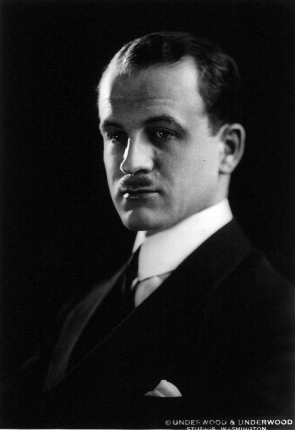 Sumner Welles, American diplomat